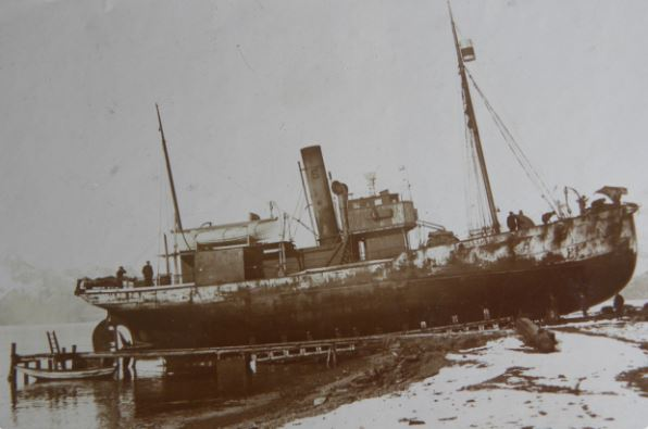 Samson (ship) a steam powered whale catcher, registered 54 tons, the vessel which rescued 3 men from King Haakon Bay after Shackleton’s trek to Stromness (Salvesen, 2nd tranche, B4 Box 2). On 19 May 1916, the whaling vessel Samson with Worsley aboard was despatched to King Haakon Bay to pick up McCarthy, Vincent and McNish.